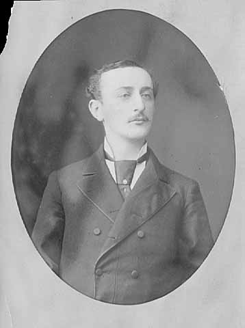 Cass Gilbert, American architect